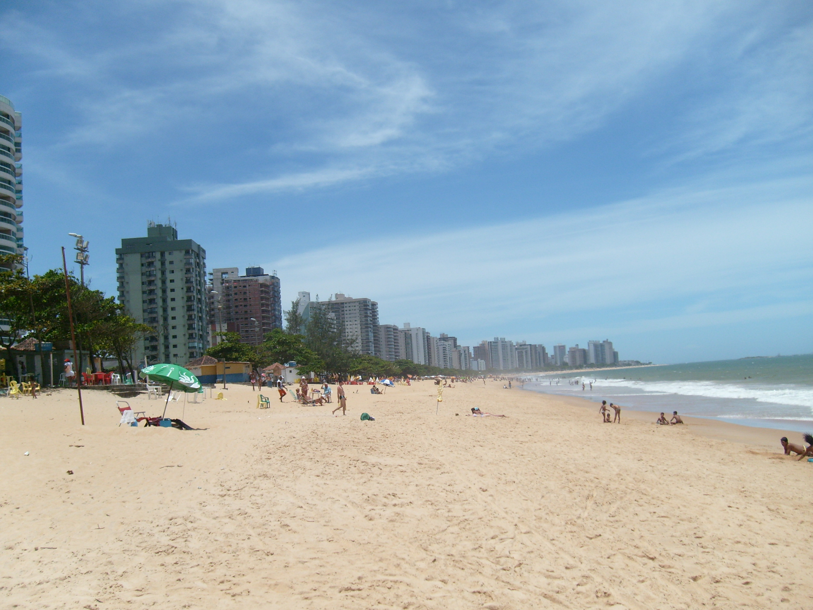 Itaparica's beach, at Vila Velha, Espírito Santo.